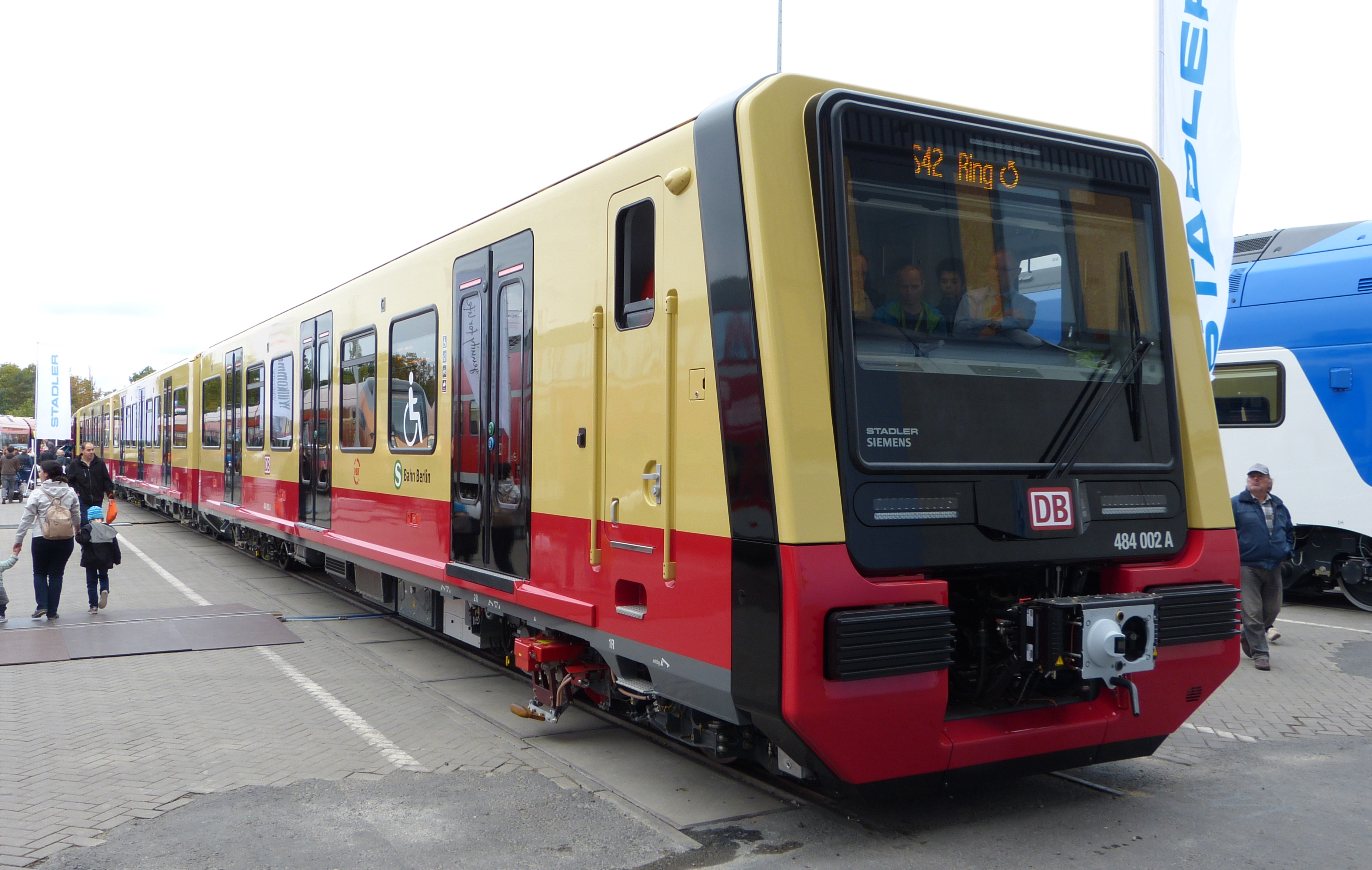 Class BR 484 of Berlin's rapid transit system made by Stadler/Siemens and presented at InnoTrans 2018